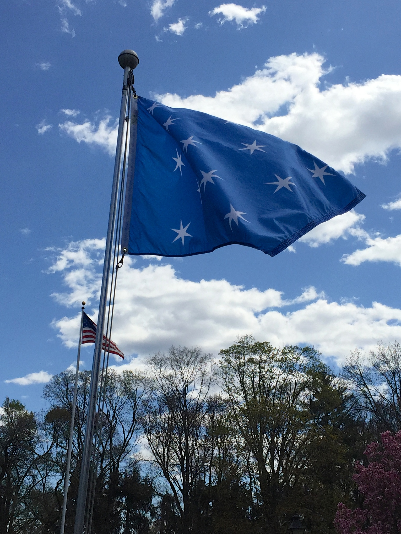 Reproduction of the personal flag used by General George Washington as Commander-in-Chief during the American Revolutionary War, at DeWint House